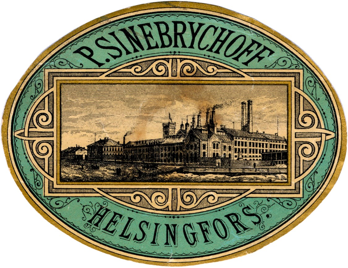 A label of Koff beer by Sinebrychoff.